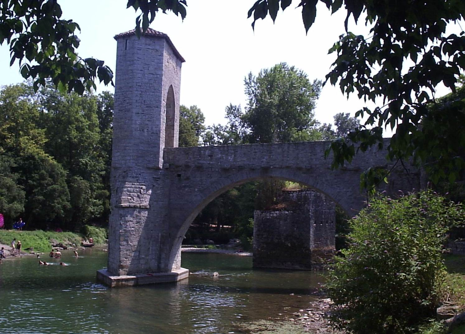 Author : Sebb Date : 07/2006